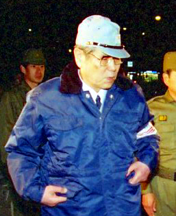 Kazutoshi Sasayama, Mayor of Kōbe City, inspected the Nada Fire Station in Kōbe City, Hyōgo Prefecture on January 17, 1996.